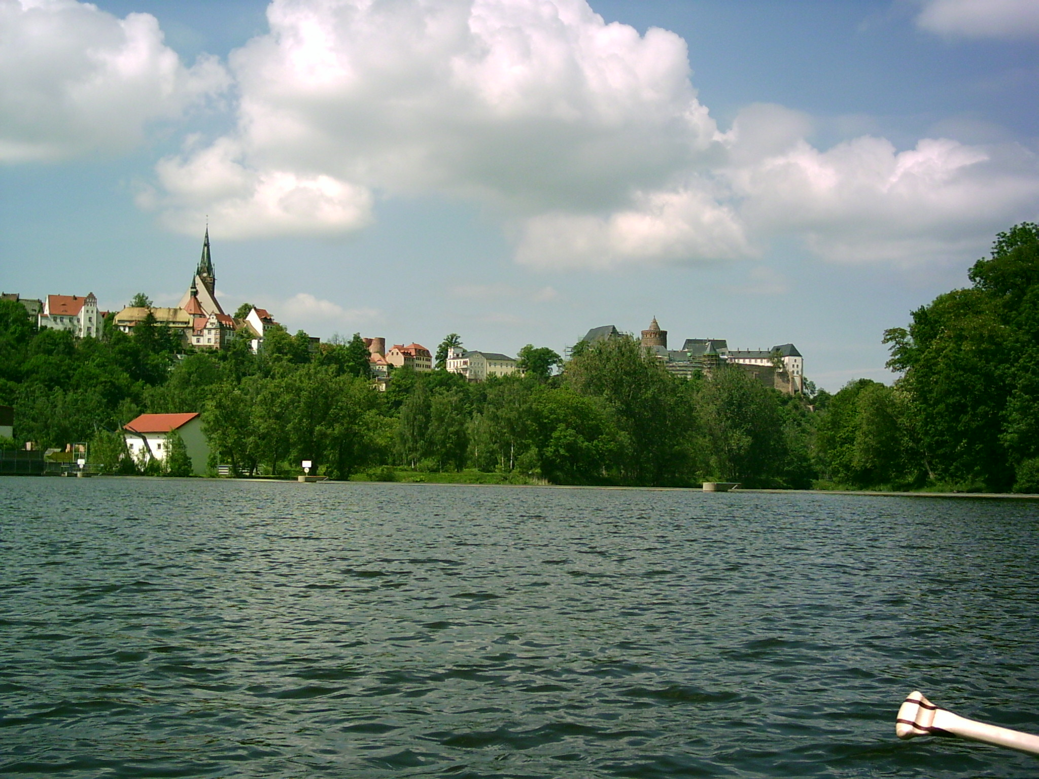 The castle Mildenstein, city Leisnig